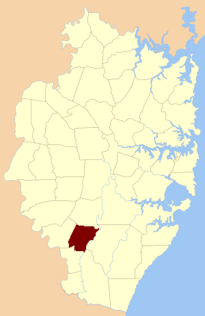 original location of the parish within Cumberland County, New South Wales (Sydney area)